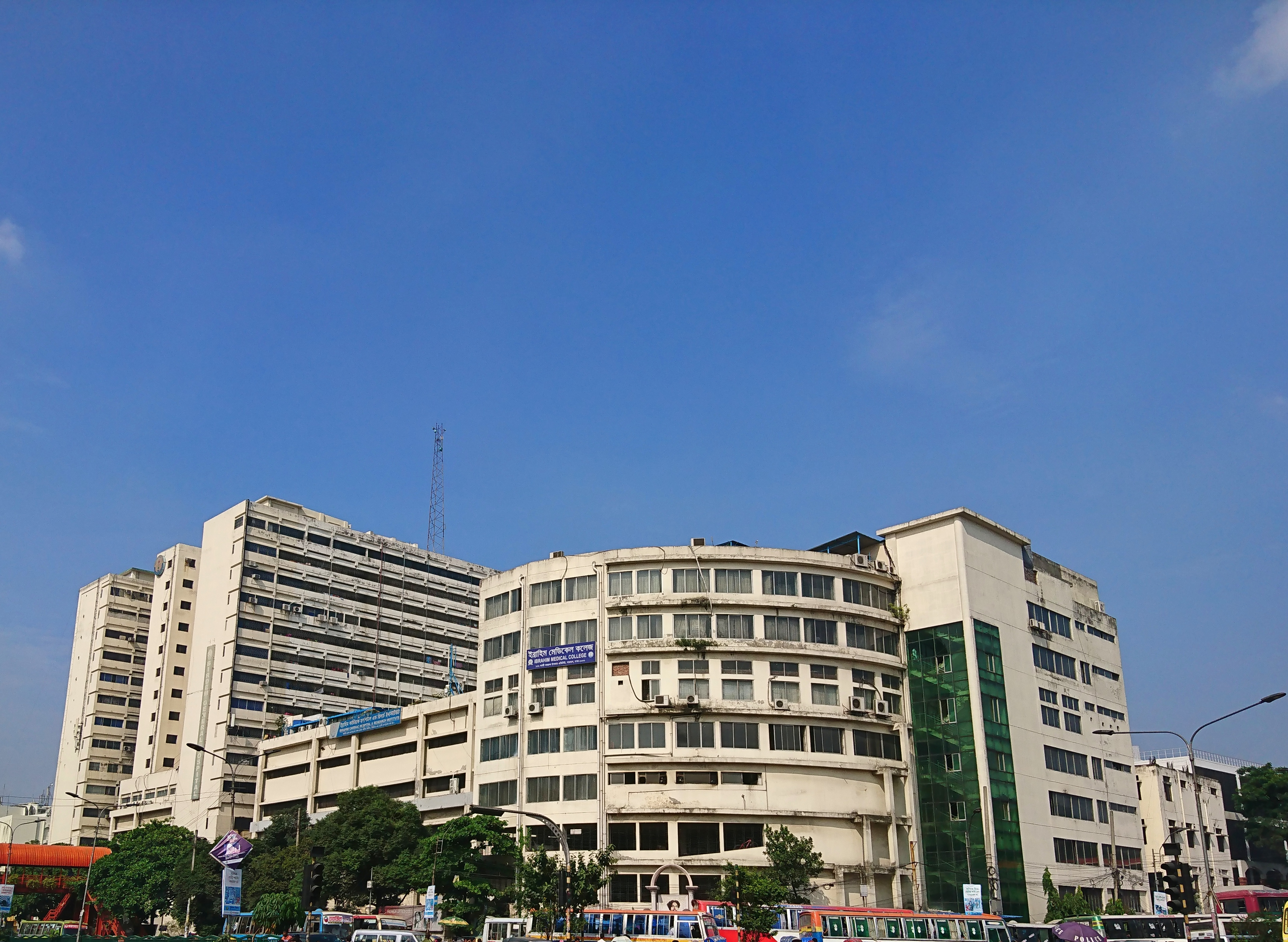 BIRDEM Hospital from Shahbag